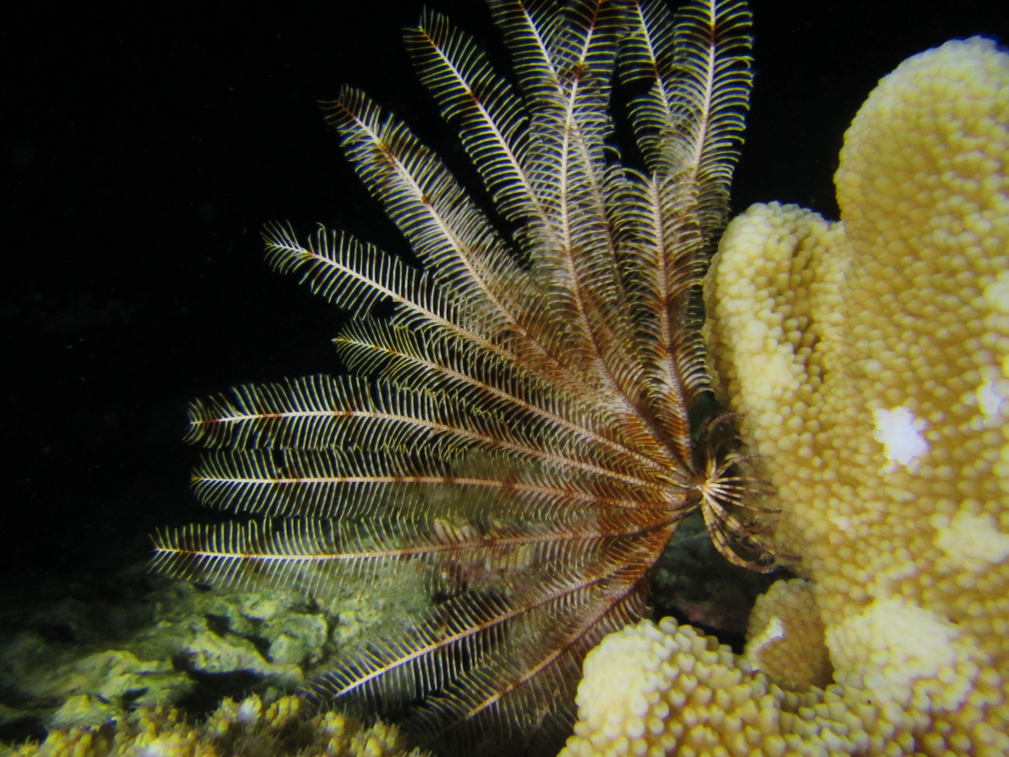 A feather star Stephanometra indica seen in Mayotte.